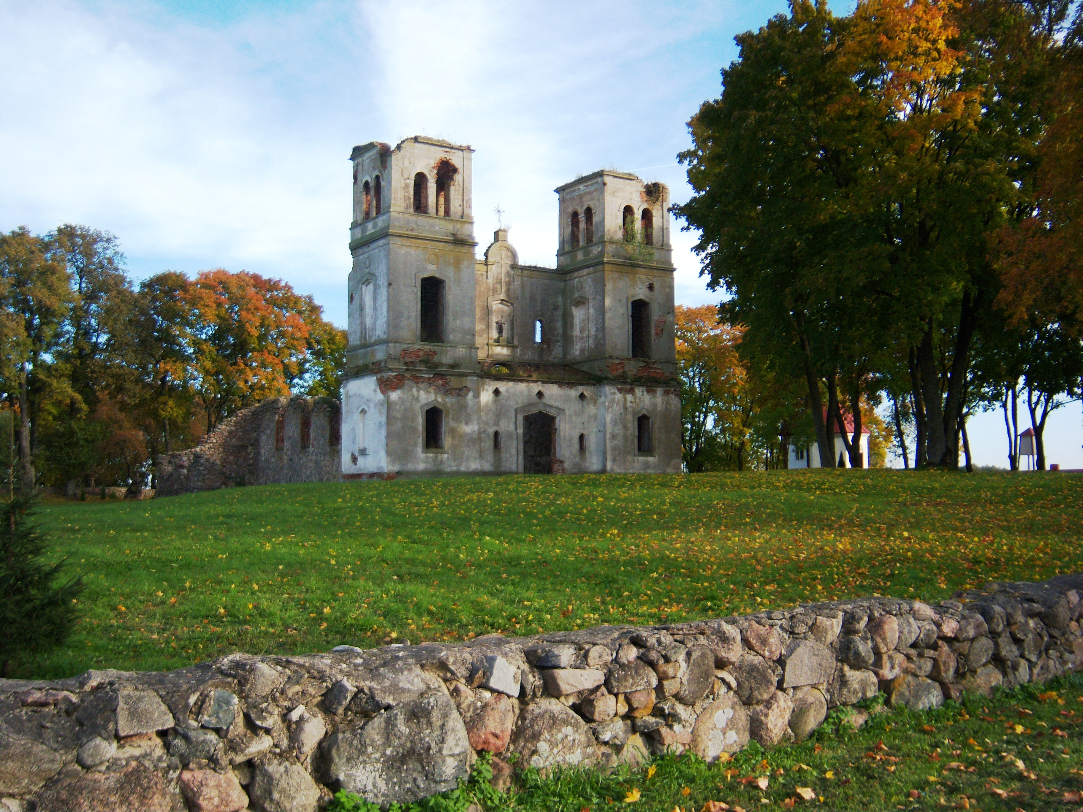 Roman Catholic Church, old, Bartninkai, Vilkaviškis District, Lithuania